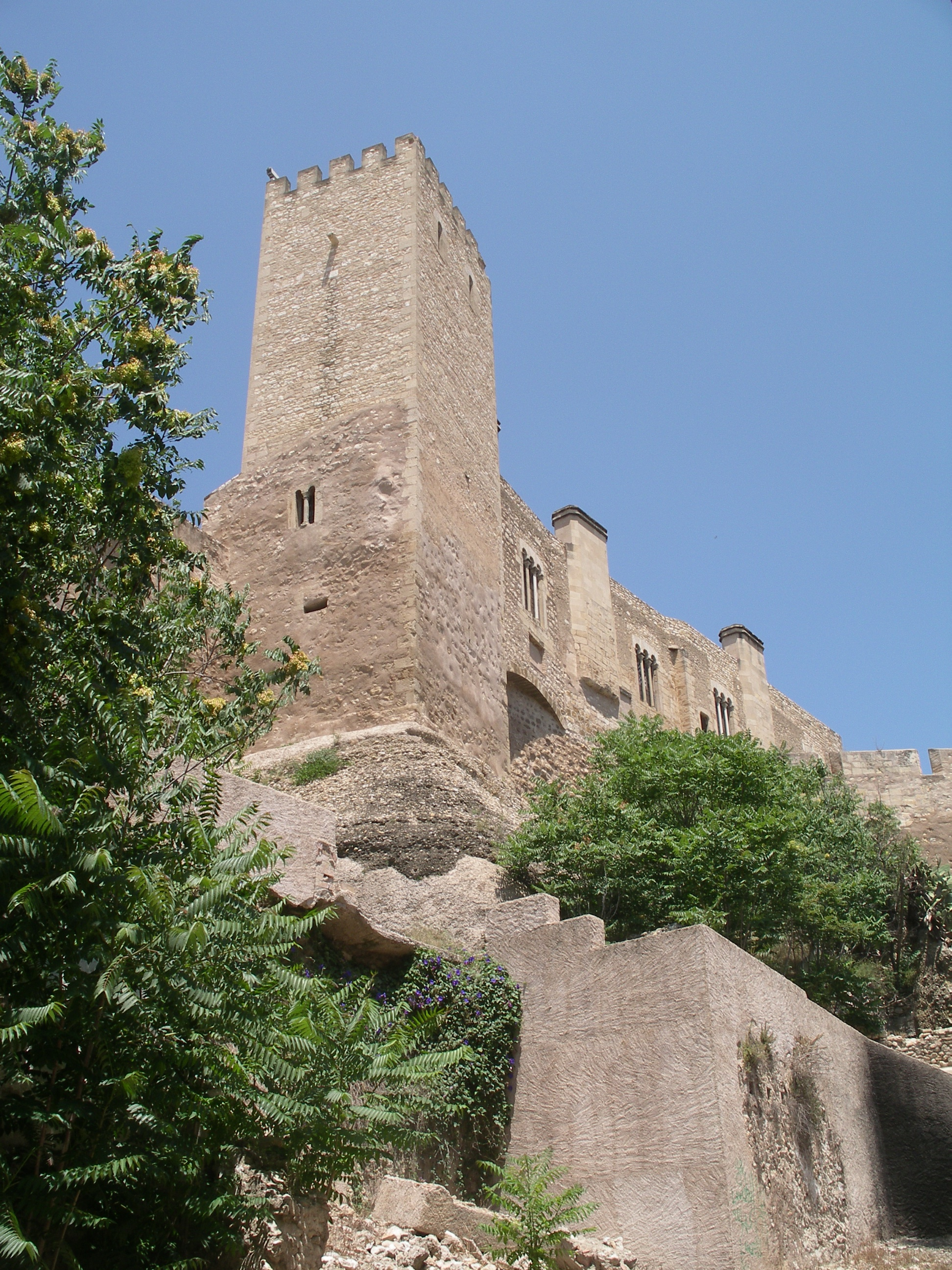 Suda de Tortosa, ancient islamic fortress, after royal palace and now "parador" (luxury hotel)